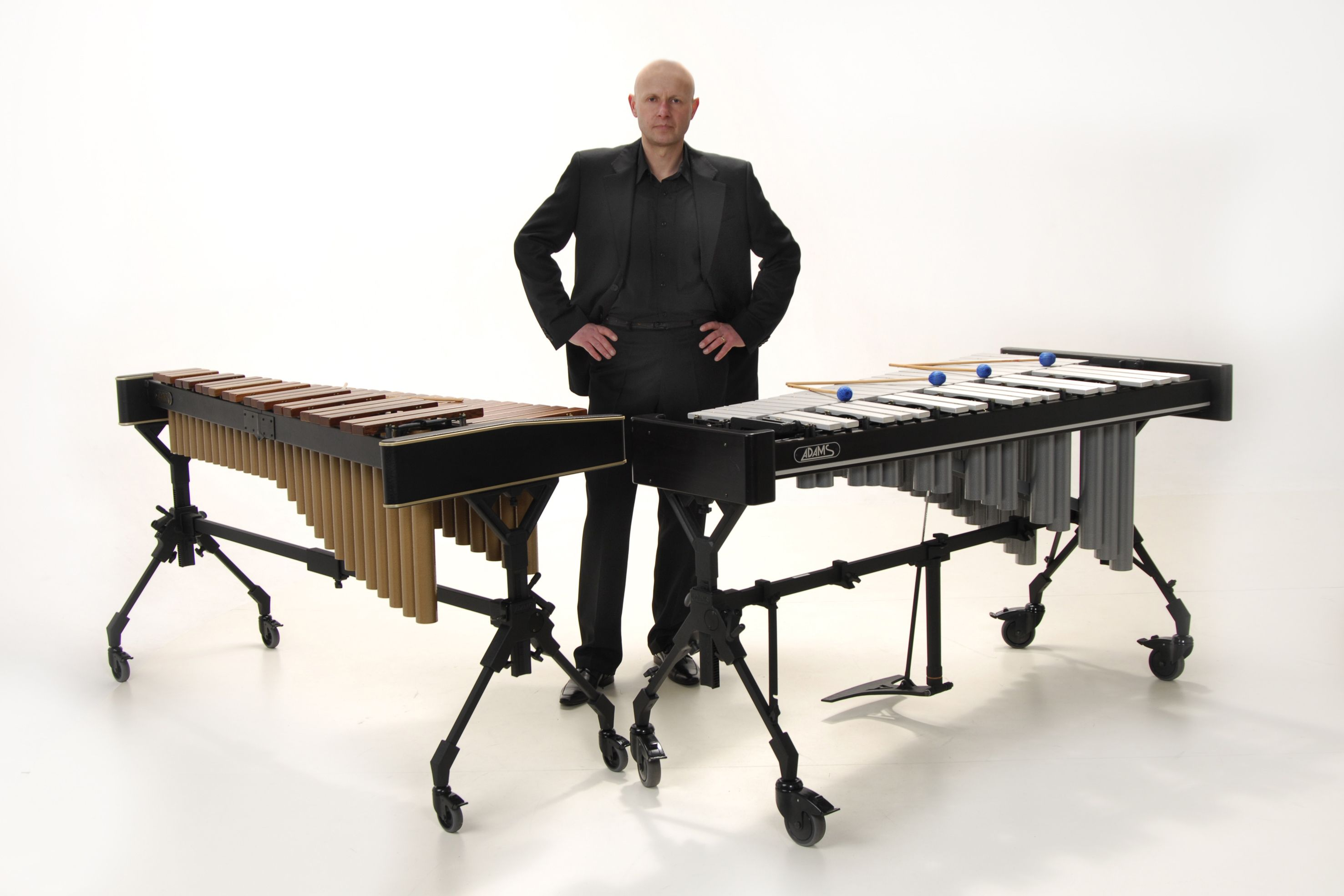 Rafael Lukjanik - Modern Classix